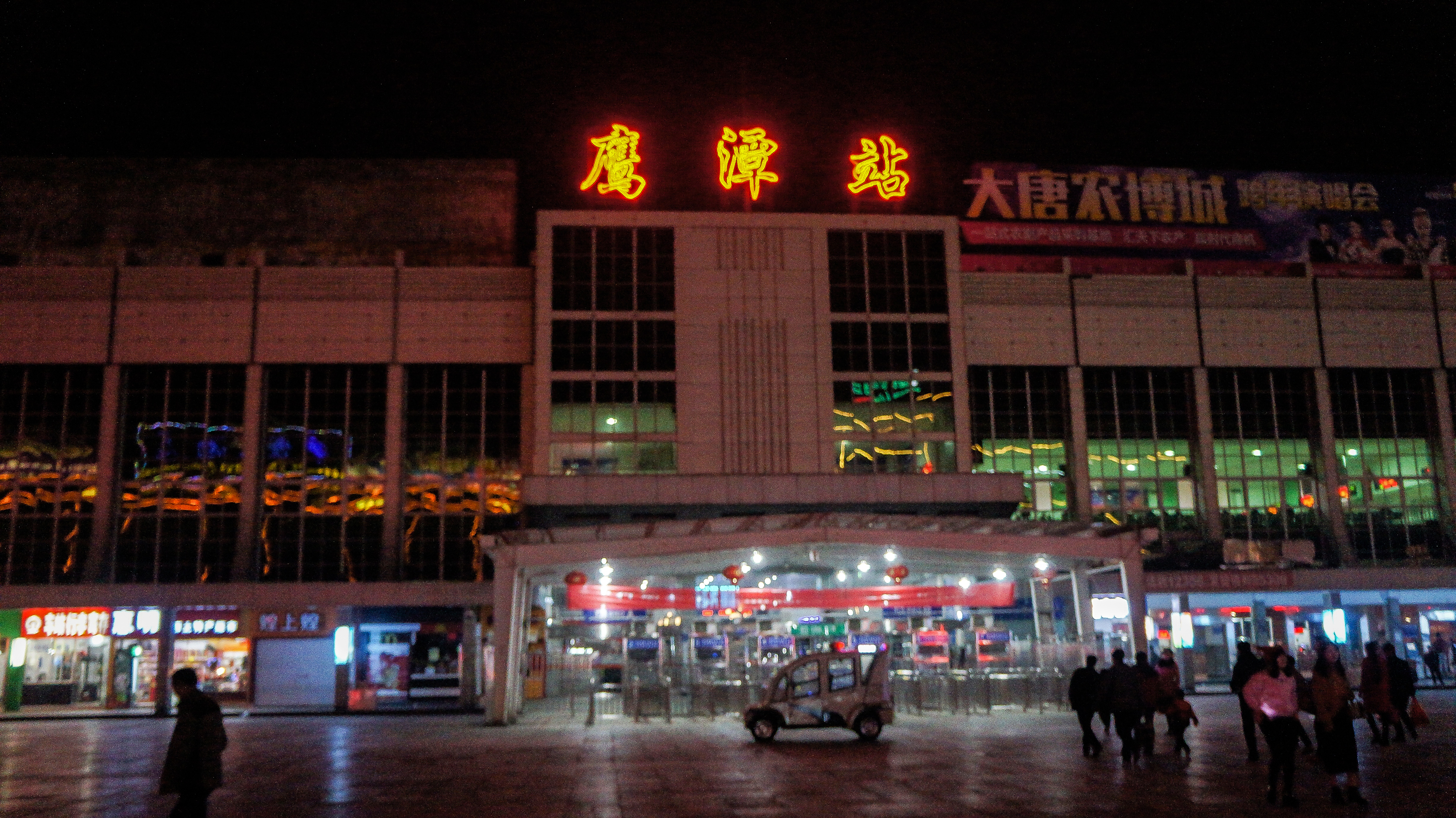 201601 Yingtan Railway Station